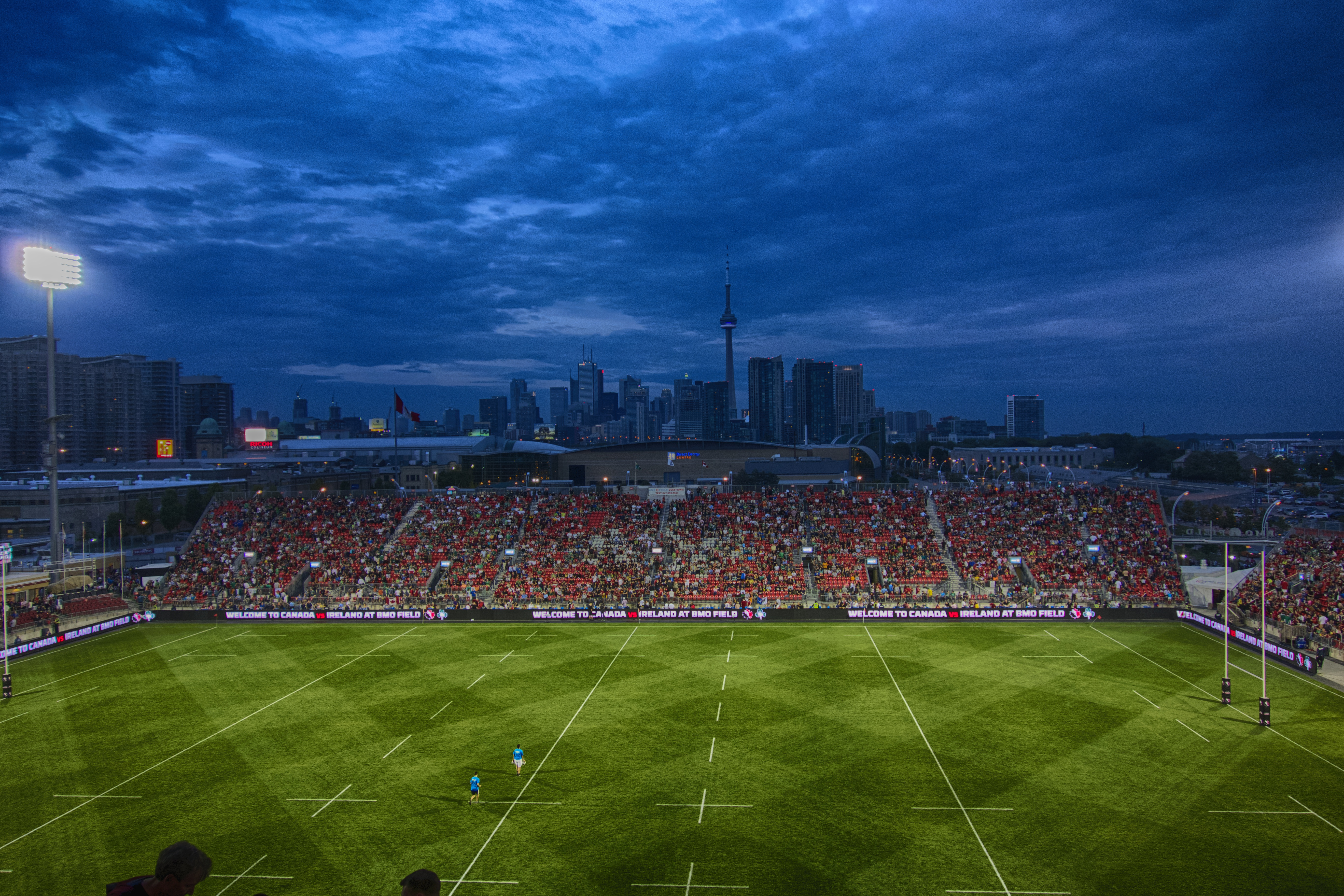 Canada vs Ireland men's rugby union test match at BMO Field in Toronto, Canada